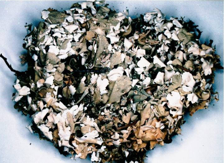 Cladonia turgida Hoffm., 1796 (photograph of a herbarium specimen) Loose on soil on acid rock outcrop in conifer woods at the end of Trail's End Road, near shore of Lake Superior, S of confluence with the Montreal River, Ontario, Canada; collected and identified by Richard E. Riefner (No. 81-316, 27 Jun 1981); specimen is now in the Lichen Herbarium of the New York Botanical Garden.